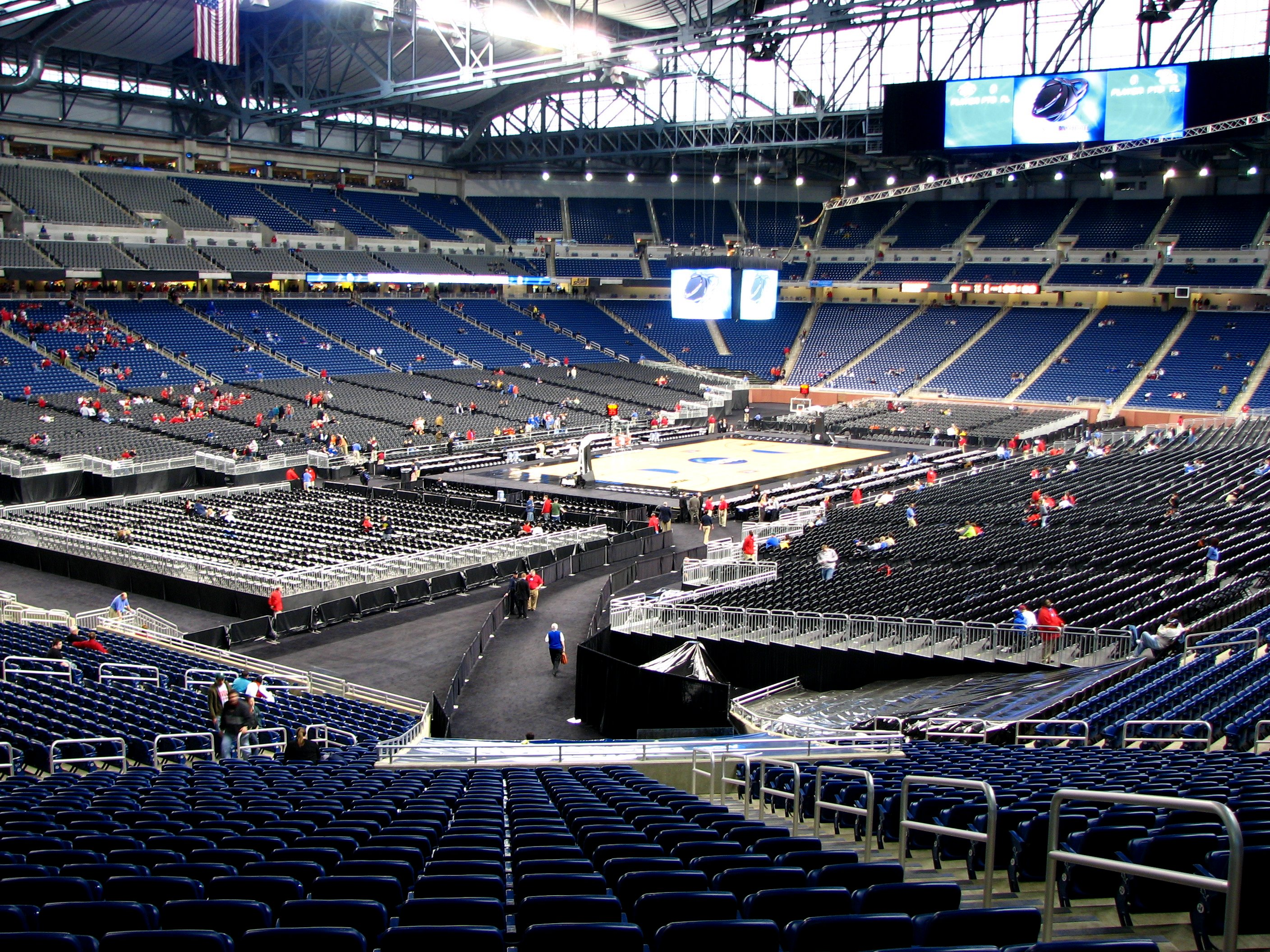 Ford Field, transformed into a basketball arena for the 2008 NCAA Men's Division I basketball tournament.